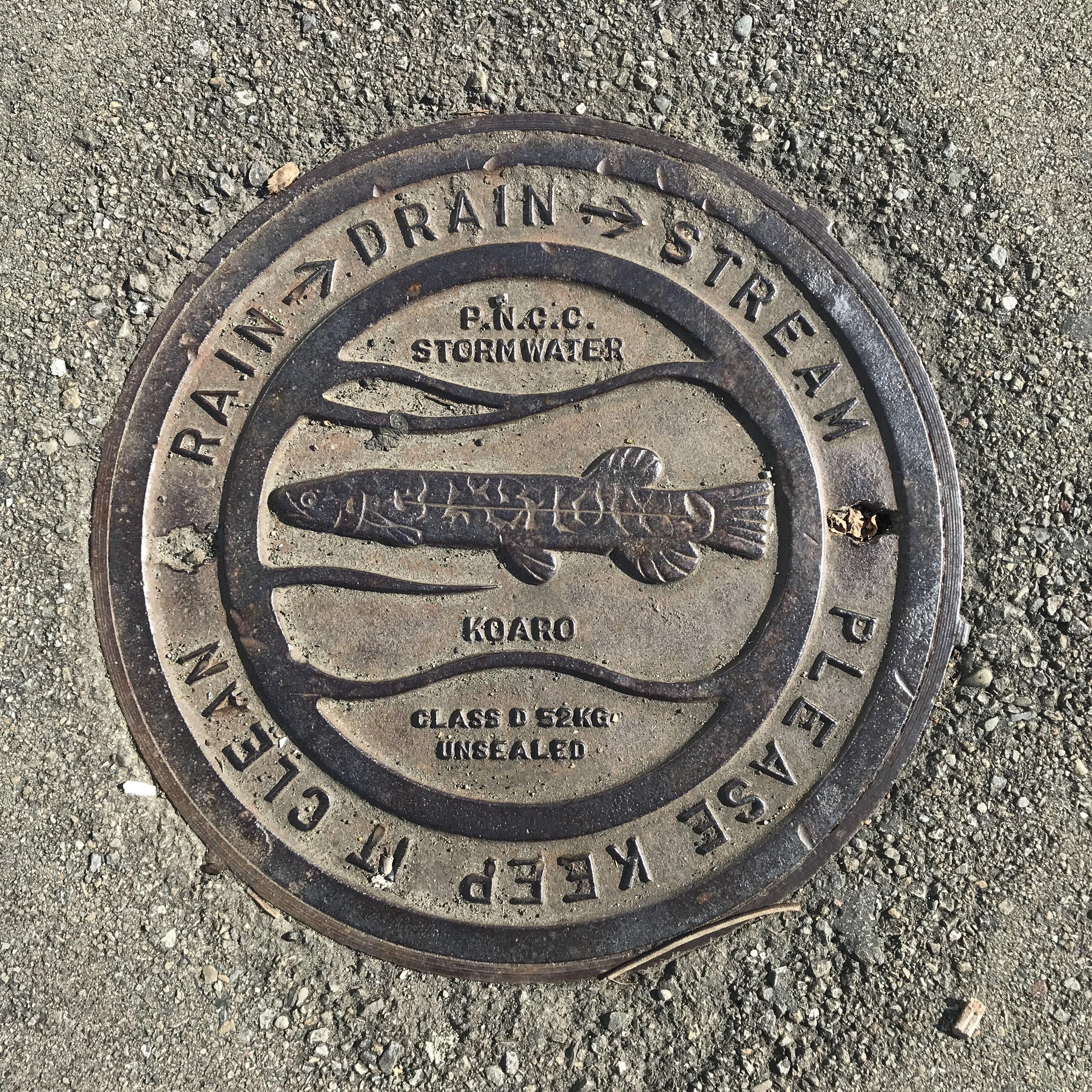 Manhole cover depicting koaro (Galaxias brevipinnis), Palmerston North, New Zealand. One of a series of stormwater-drain access covers depicting different native fish species, to prevent water pollution from dumping of chemicals or waste into street drains.